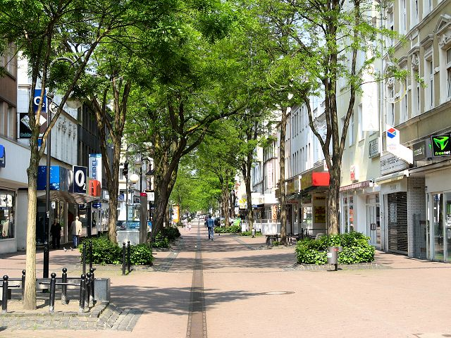 Hauptstrasse, Herne/Wanne-Eickel Germany. The main Shopping-Street, Herne.